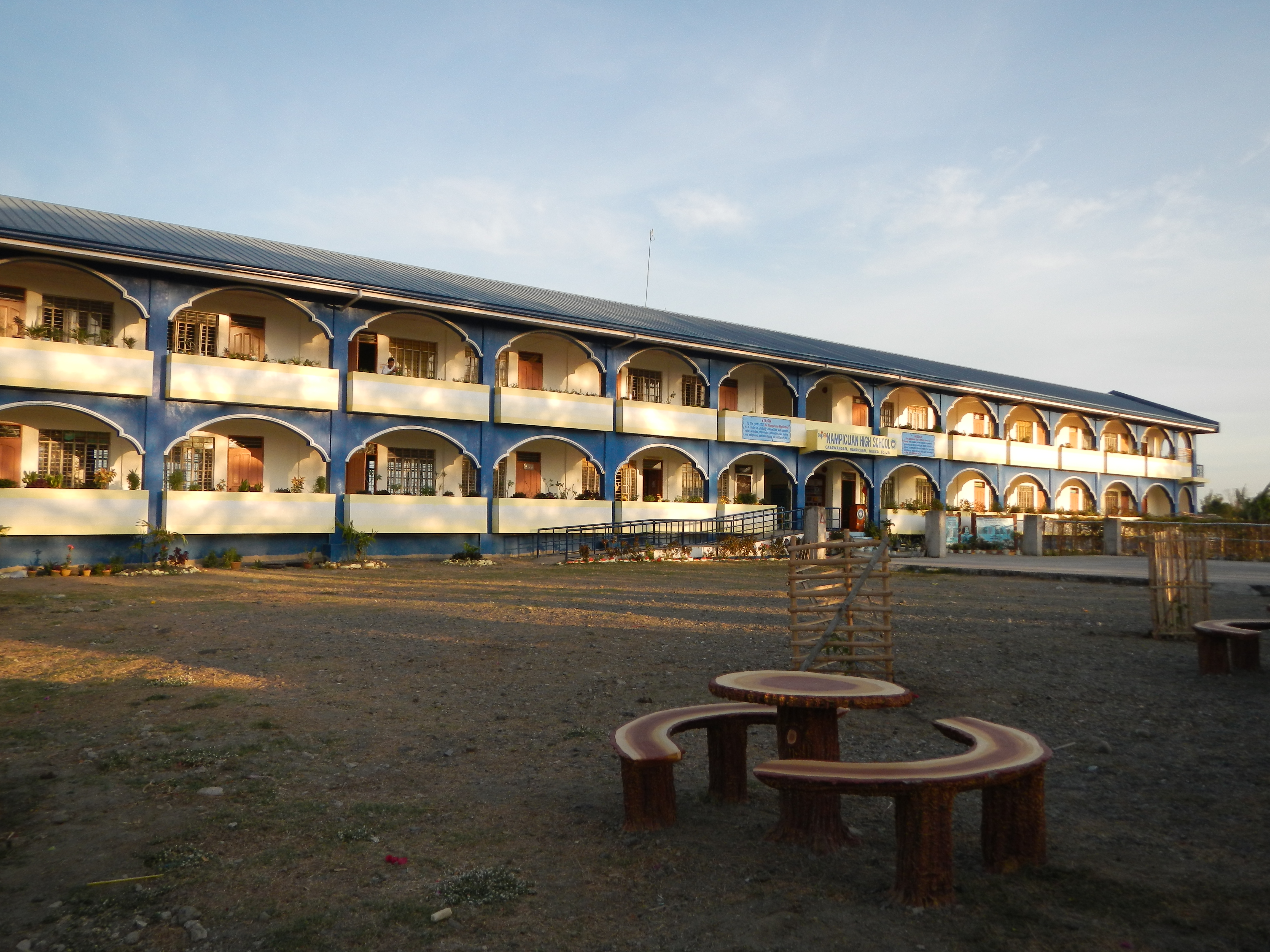 Nampicuan, Nueva Ecija[1]is a fifth class municipality in the province of Nueva Ecija, Philippines. According to the 2010 census, it has a population of 13,303 people.[2]Coordinates: 15°43'19"N 120°40'9"E Land Area: 52.60 km² ZIP Code: 3116